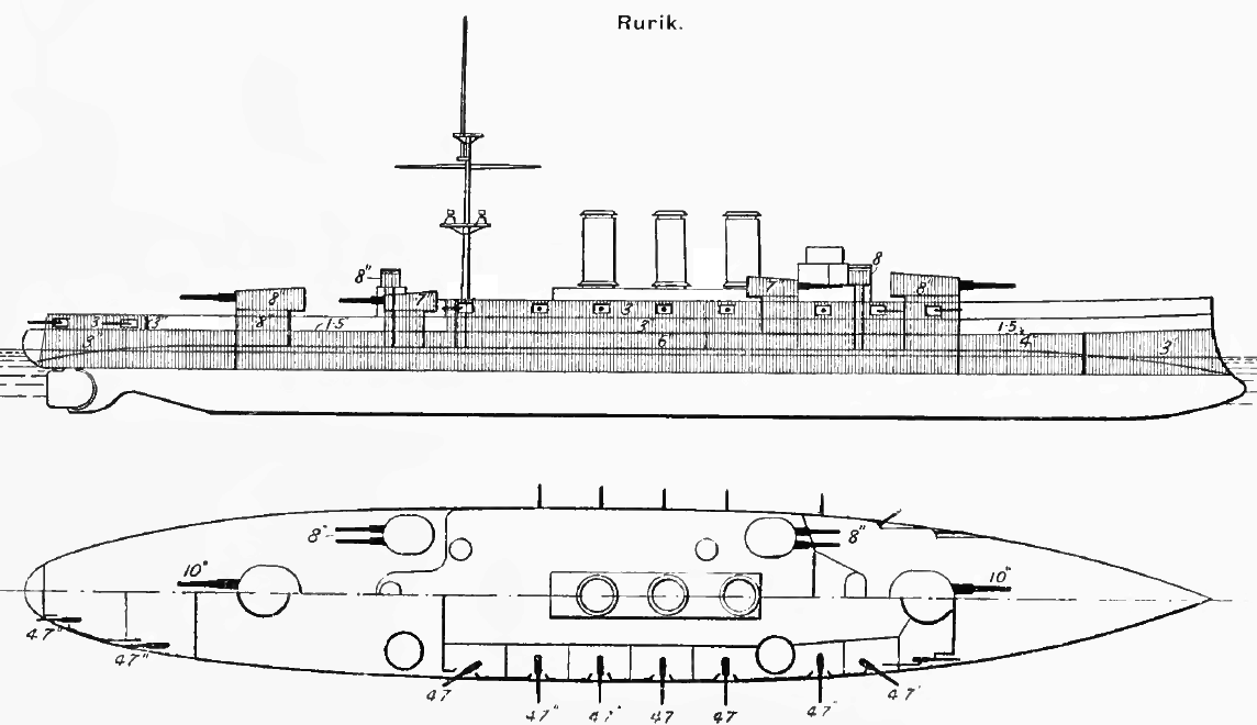 Sketch of the Russian armoured cruiser Rurik with corrected armour in stern section and removed side armoured fire control posts (in initial design only).